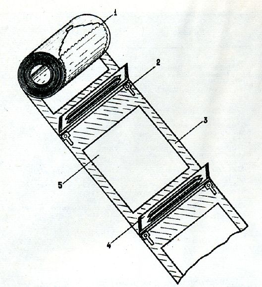 Photosensitive material complect of "Moment" camera.